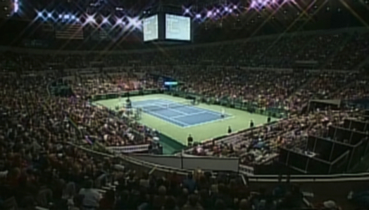 Interior shot of the Memorial Coliseum in Portland, Oregon during the Davis Cup in 2007.